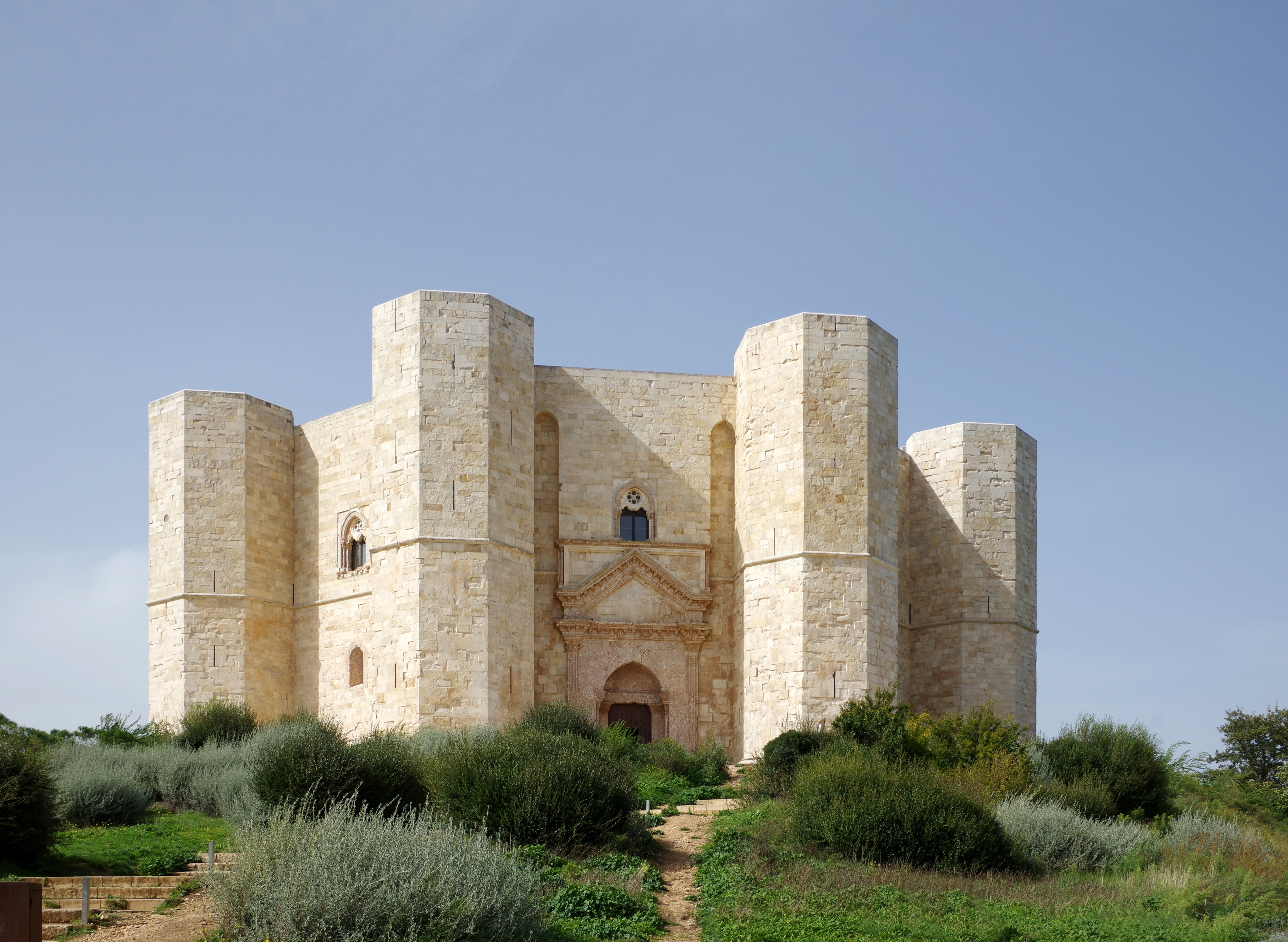 Italy, Castel del Monte